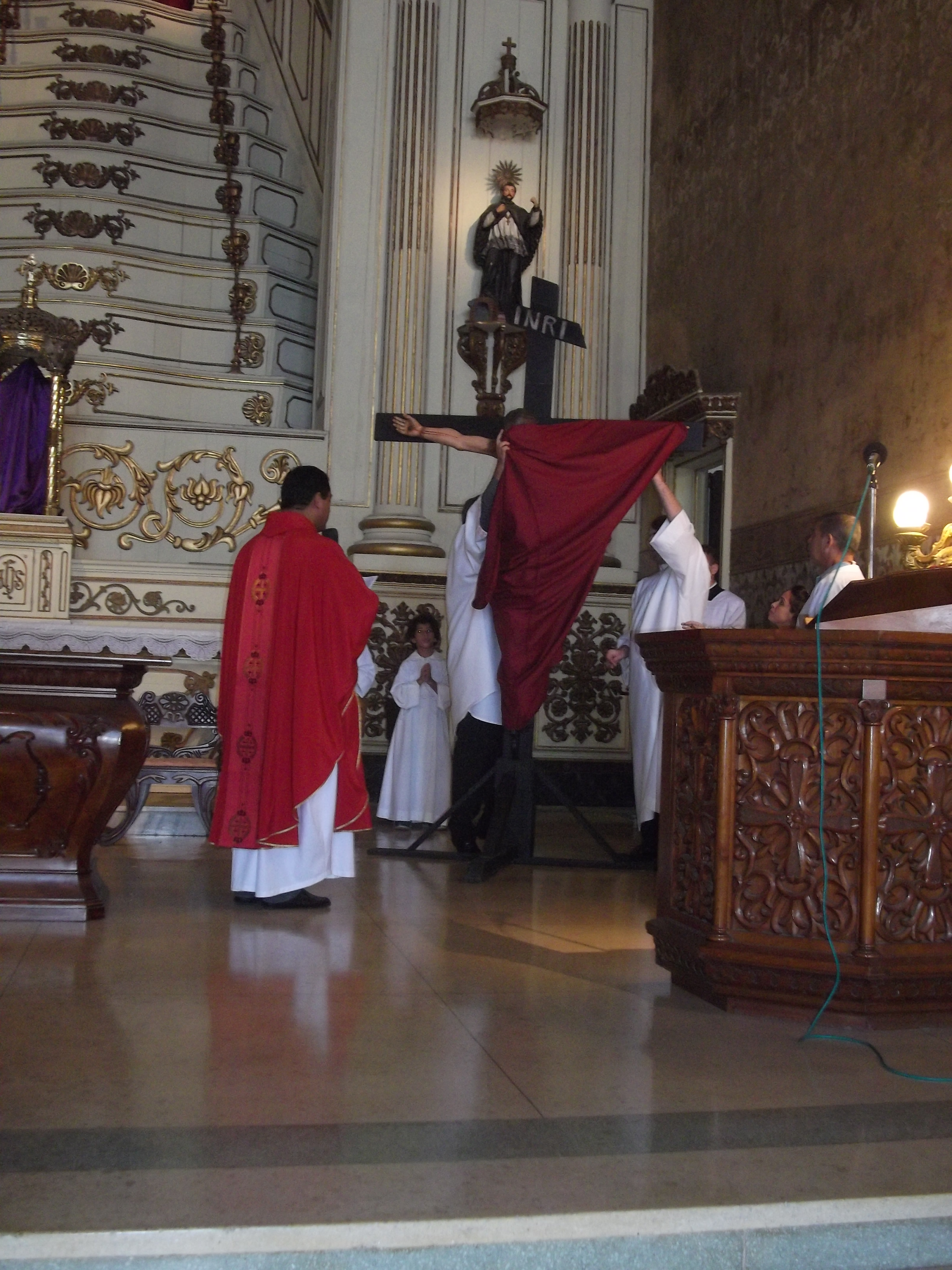 Displaying the Holy Cross